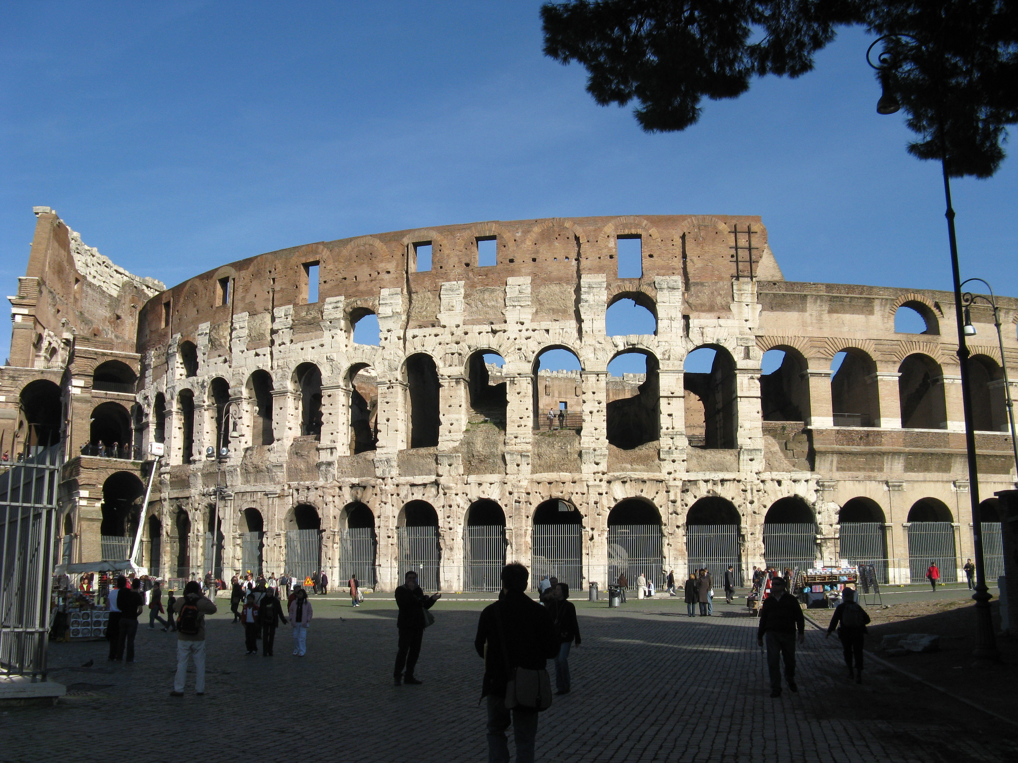 Colosseum, Rome, Italy